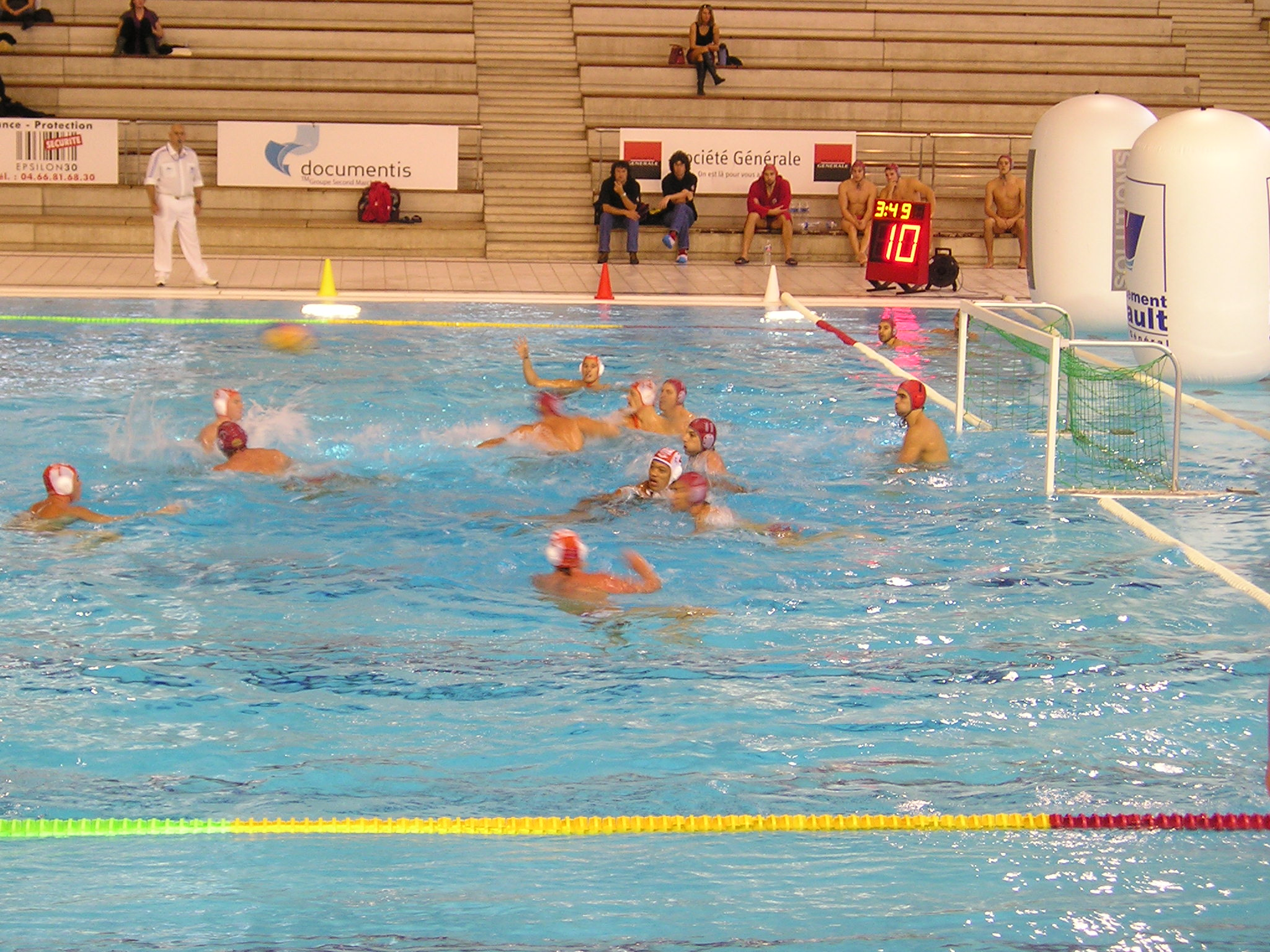 Montpellier, LEN Trophy first round, Montpellier vs. Cattaro. The Montpellier Water-Polo on the offensive (white and orange hat): the ball is leaving Peysson's hand. Immediately, Cattaro defenders are moving around the two center point players (Andrès Aguilar n°2 et Emil Hansen Morgen n°4).